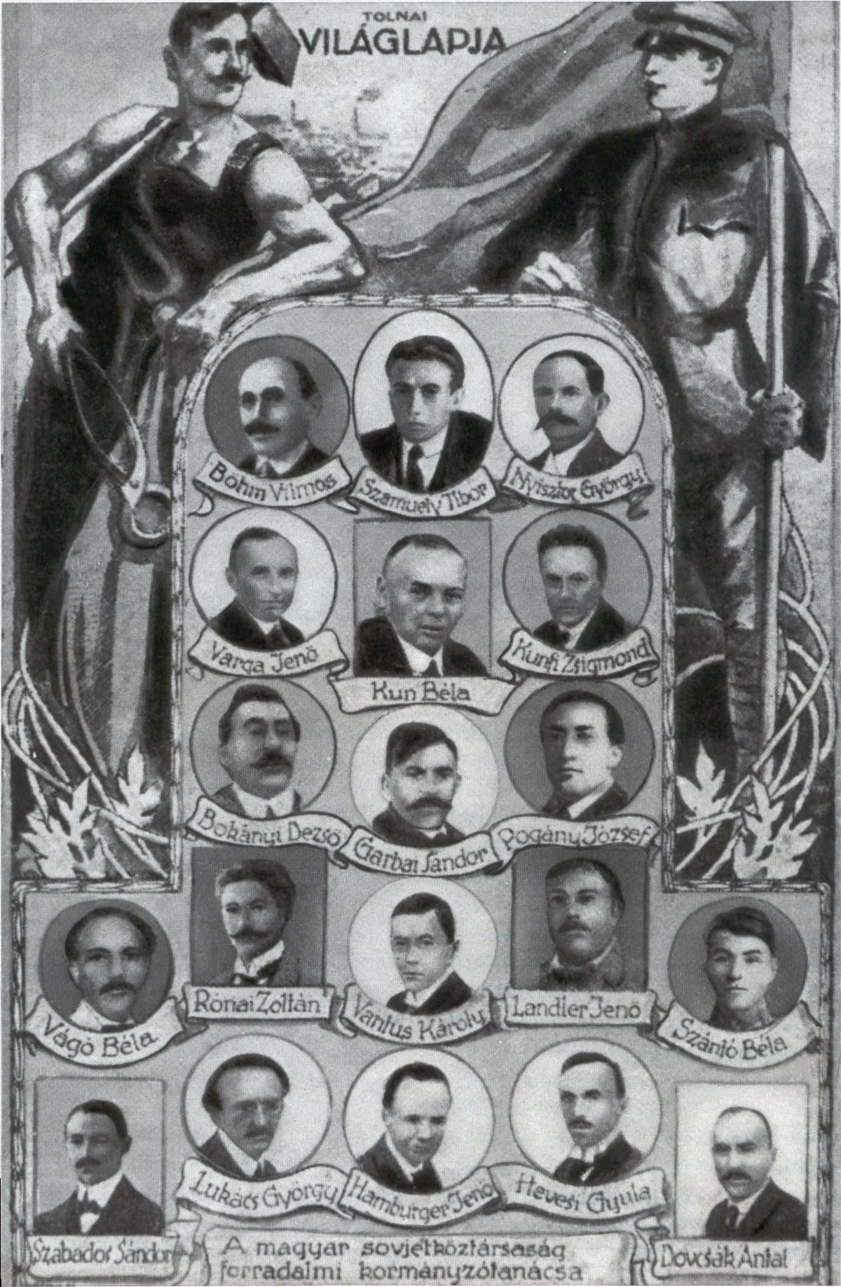 Propaganda image of the Hungarian soviet government, 1919